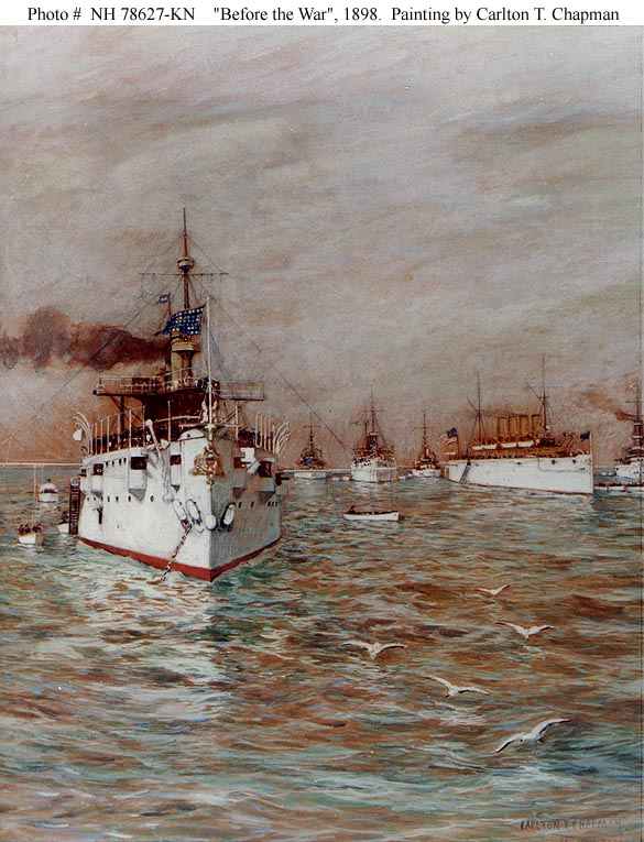 "Before The War", the United States Navy North Atlantic Squadron in 1898 of Hampton Roads, Virginia. Ships present: (left to right) USS New York, USS Indiana, USS Texas, USS Massachusetts, USS Columbia and USS Iowa. 115KB; 585 x 765 pixels